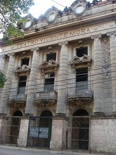 Vicente Mora Theater in Guanajay Cuba